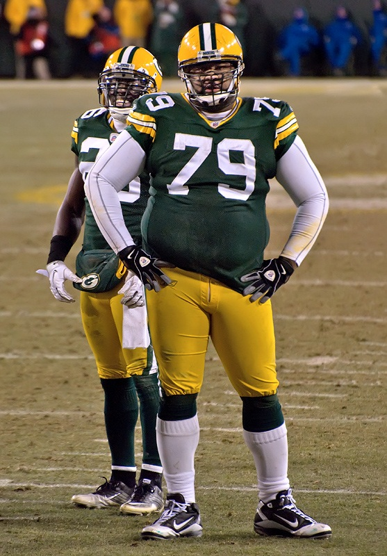 Lambeau Field, January 2, 2011. Photo by Mike Morbeck.